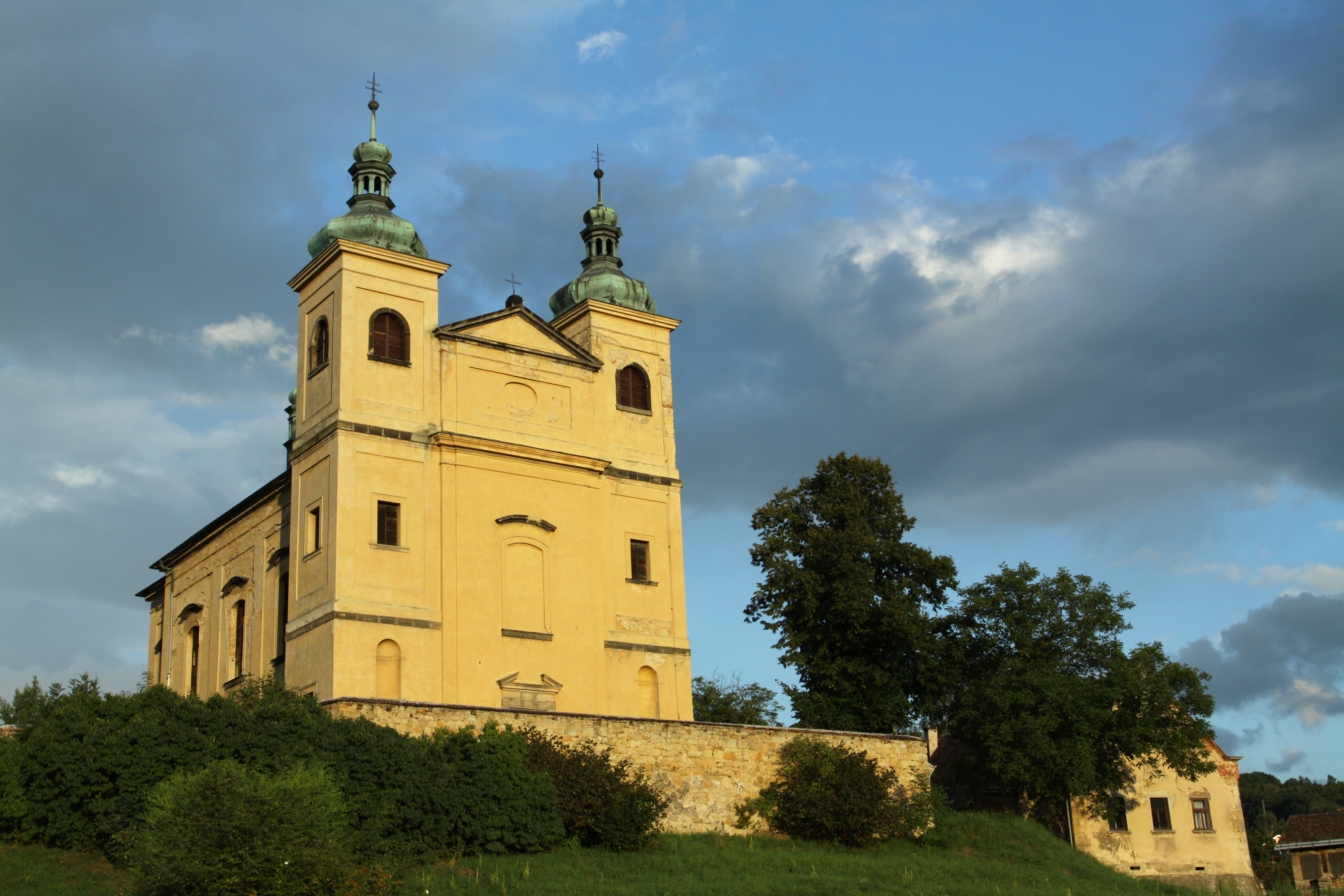 Church of Saint Lawrence in Nebočady close to Děčín town, Děčin District, Czech Republic